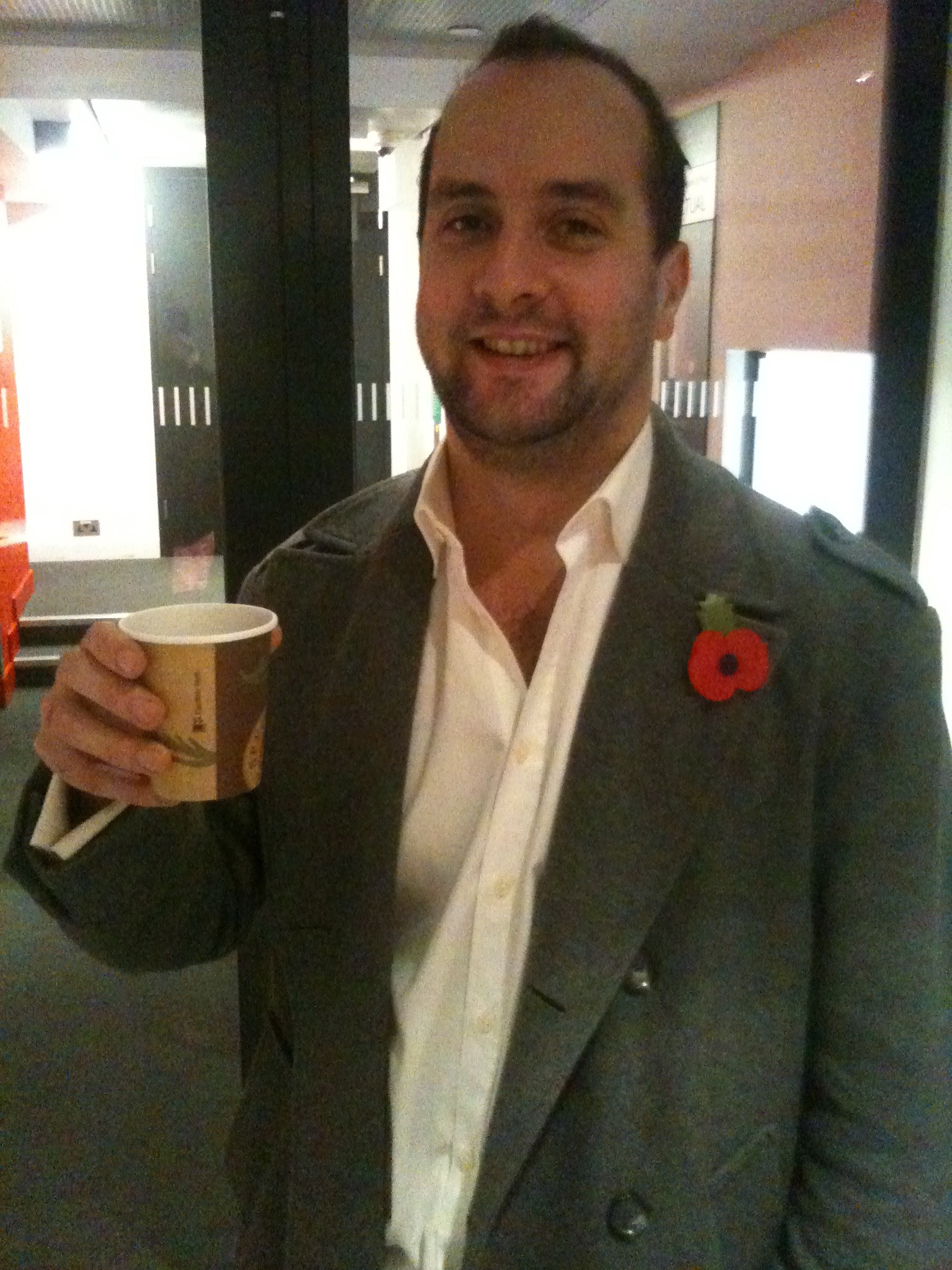 Composer Tarik O'Regan in the BBC Radio 3 green room at Broadcasting House on October 31, 2011